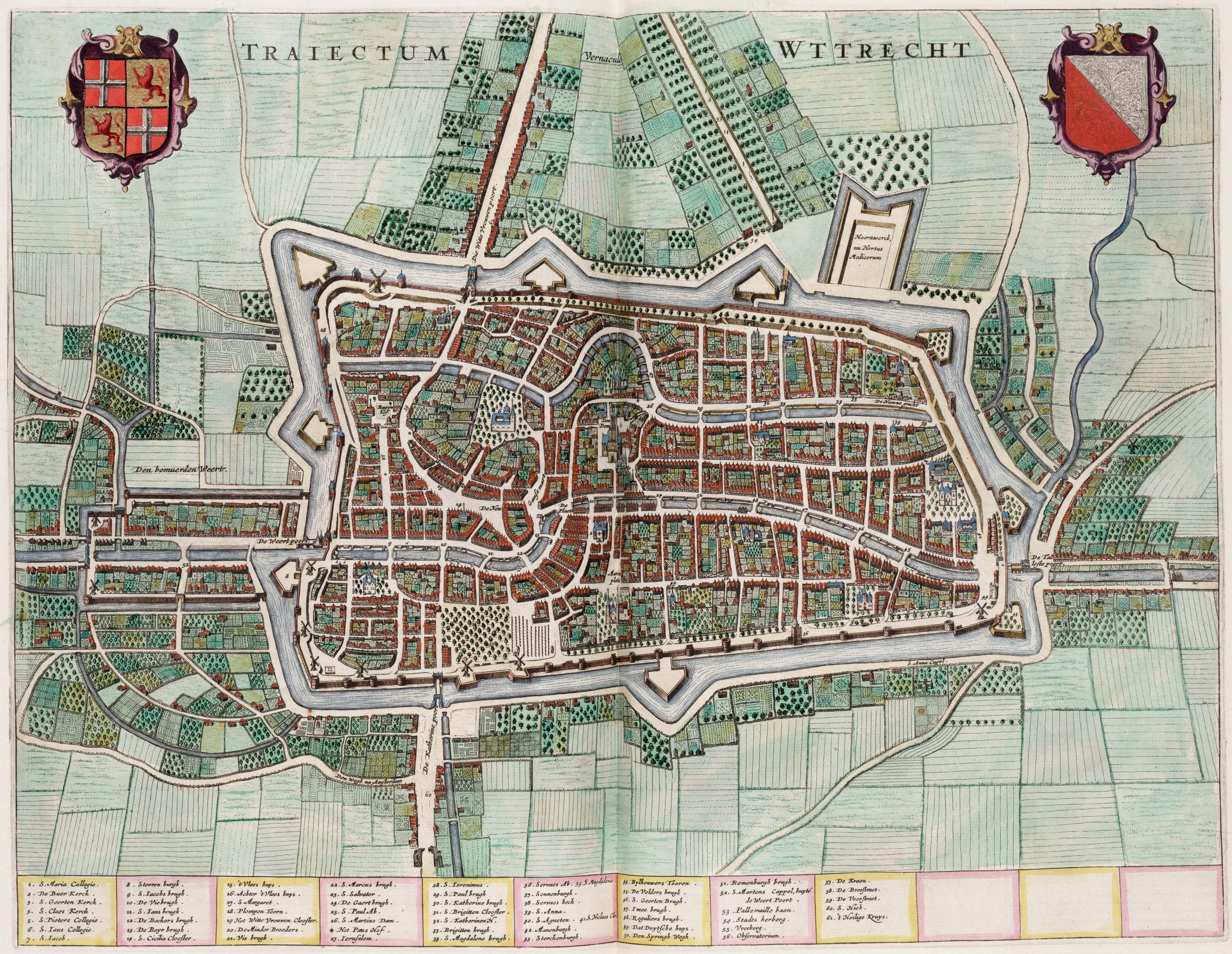 Map of Utrecht.